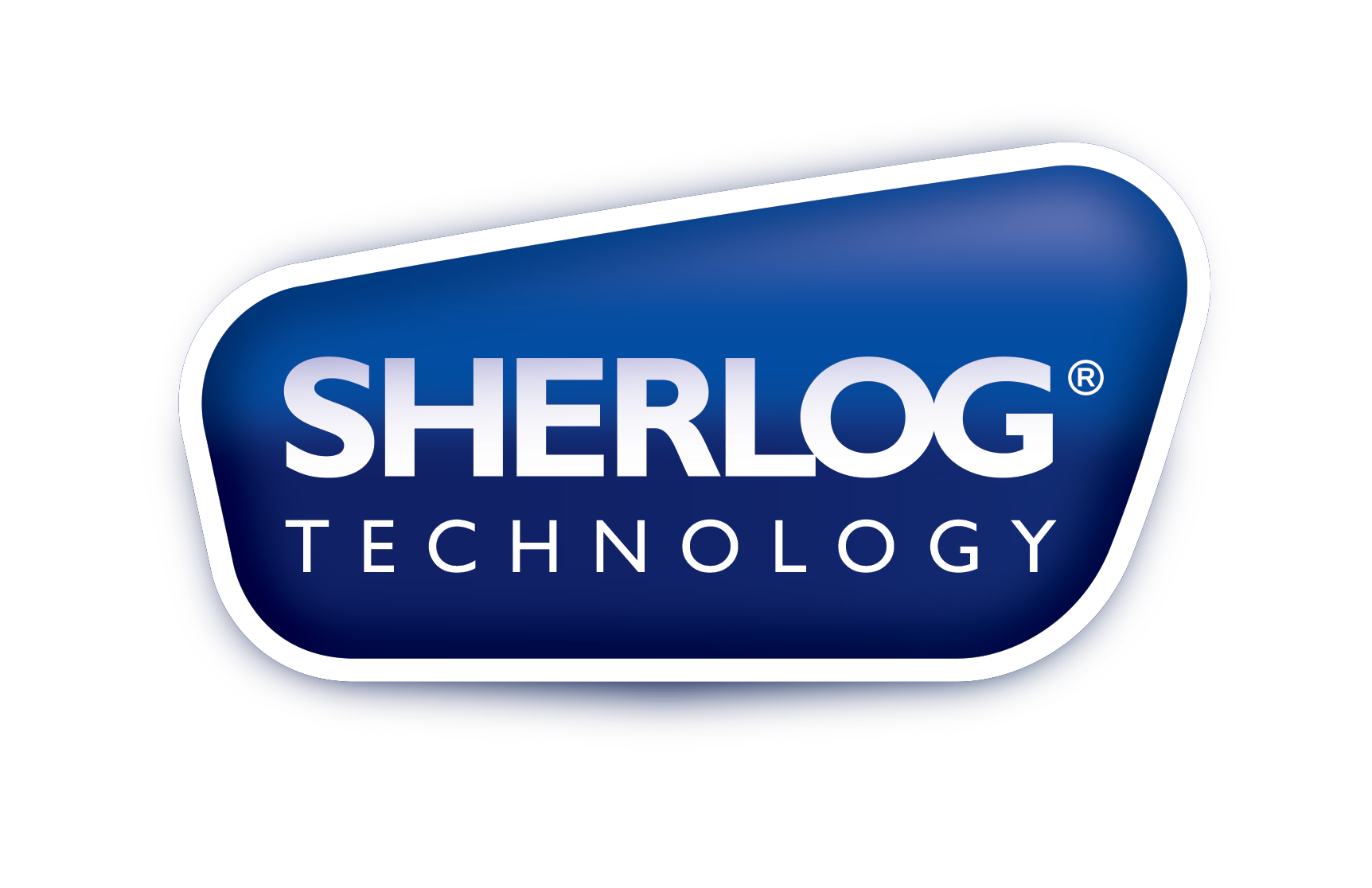 Security, monitoring